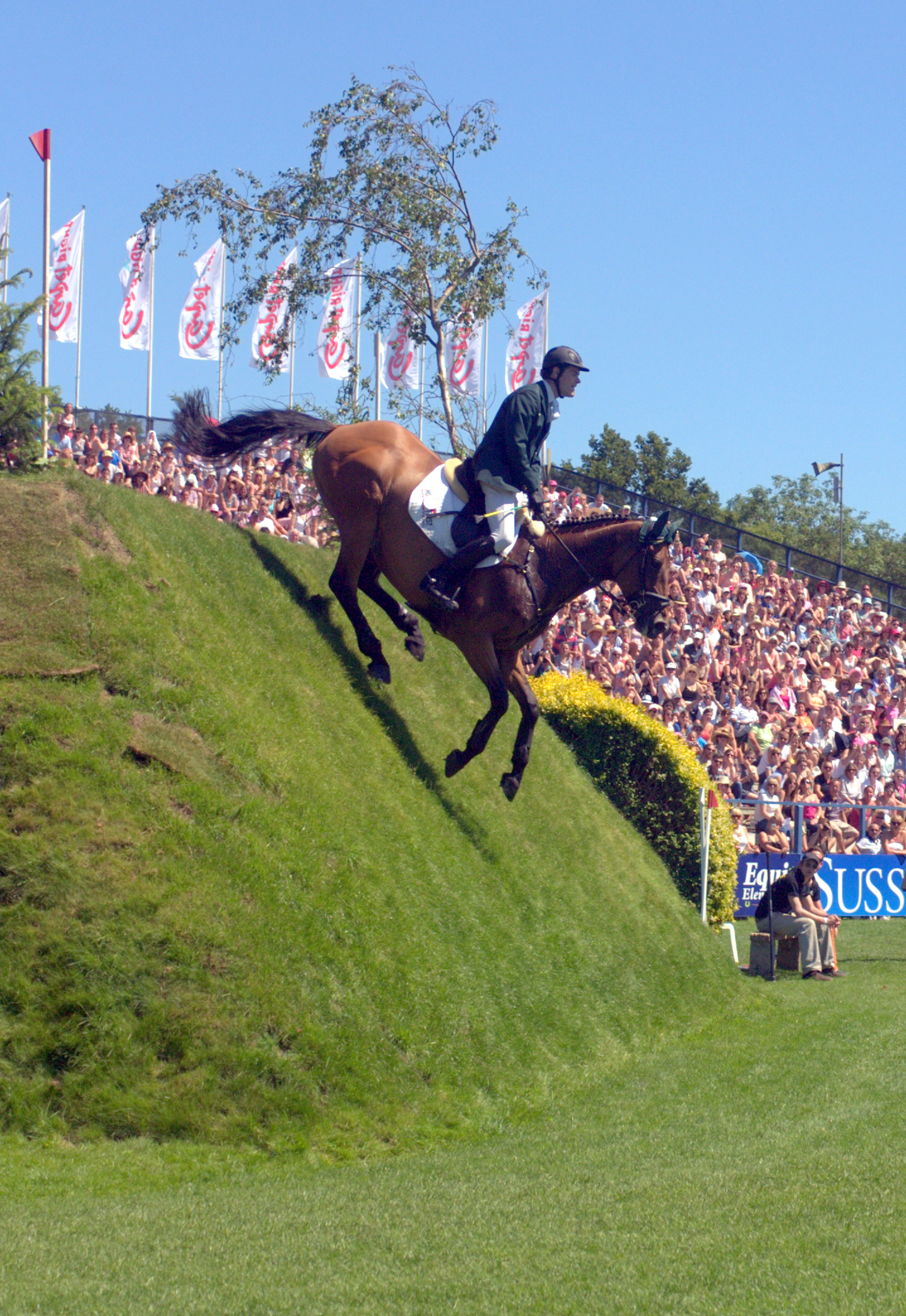 Showjumping competitor Michael Whyte (IRL) riding Highpark Lad, Bay Gelding (1999) at British Jumping Derby, Hickstead, 26 June 2011